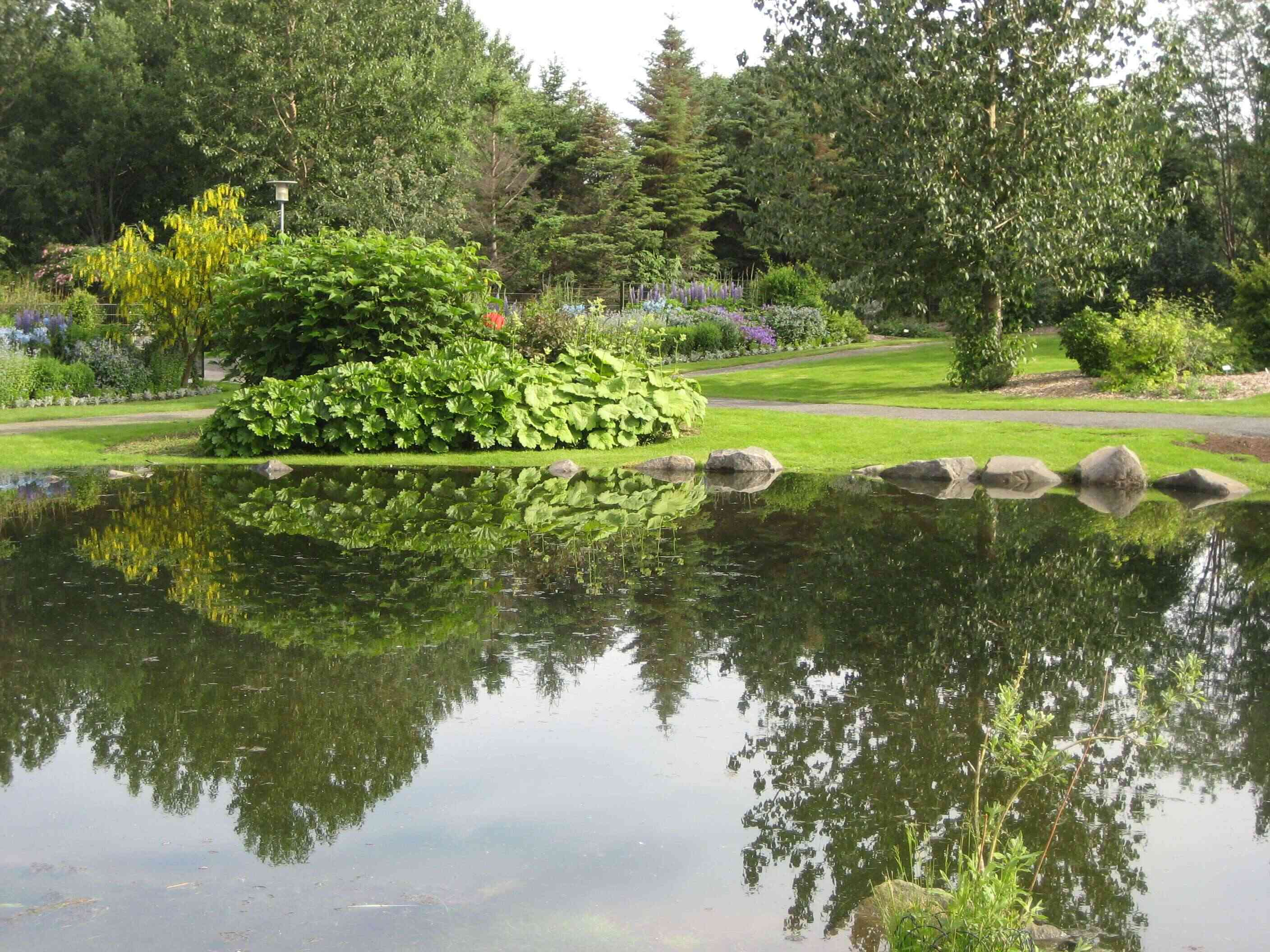 Reykjavik Botanic Gardens